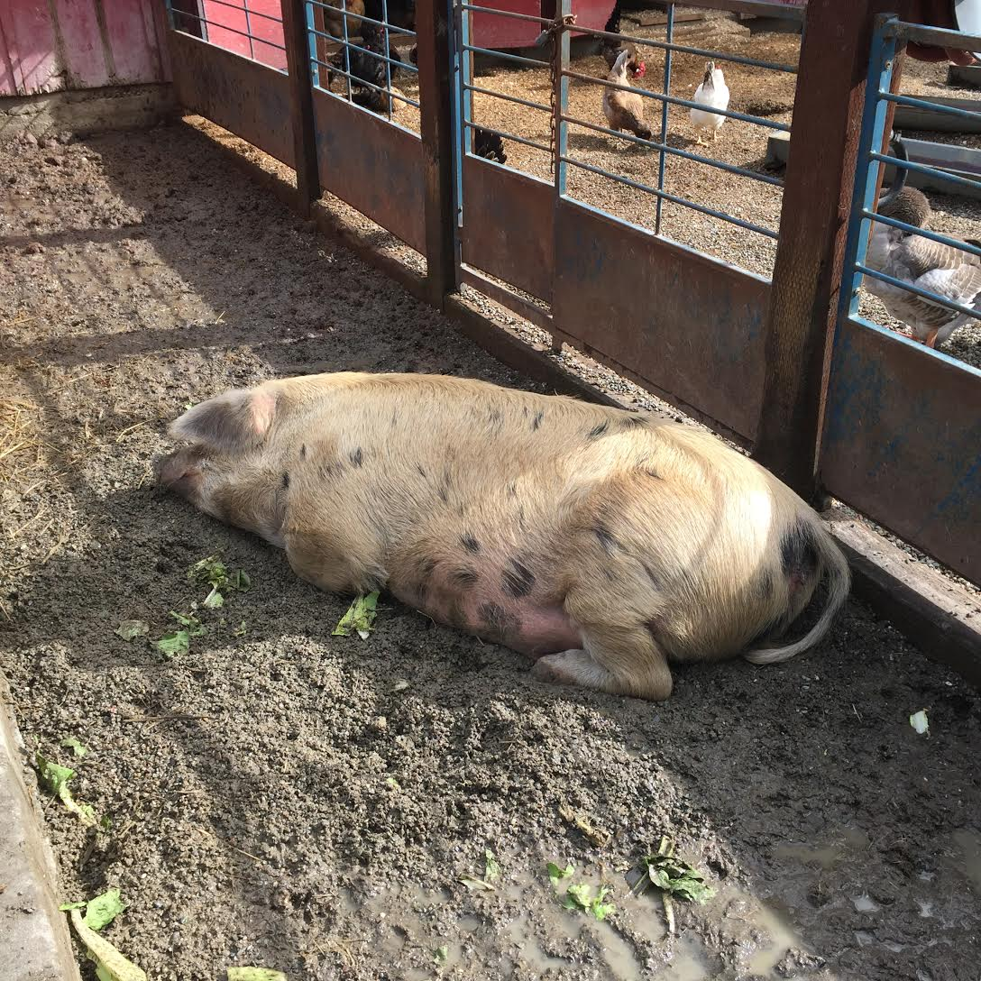 Countess, the sow at the Little Farm.